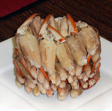 Cocktail Claw crab meat from Blue Swimming Crab.